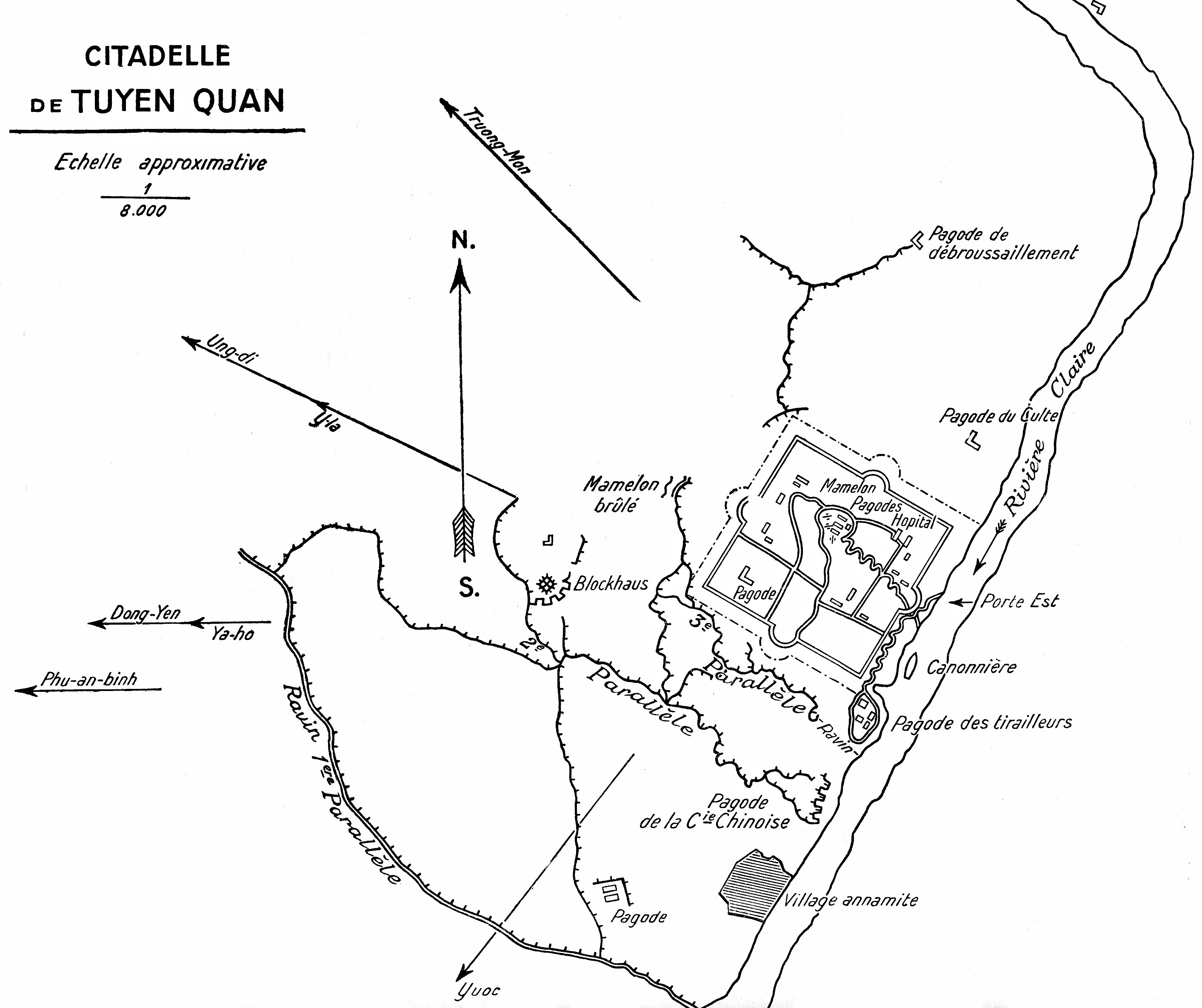 Map of the siege of Tuyen Quang, November 1884 to March 1885